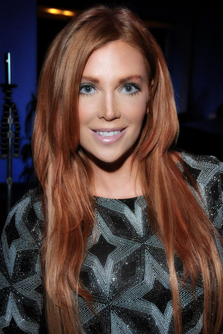 Angelica Bridges, Hollywood California on December 4, 2014 - Photo by Glenn Francis of